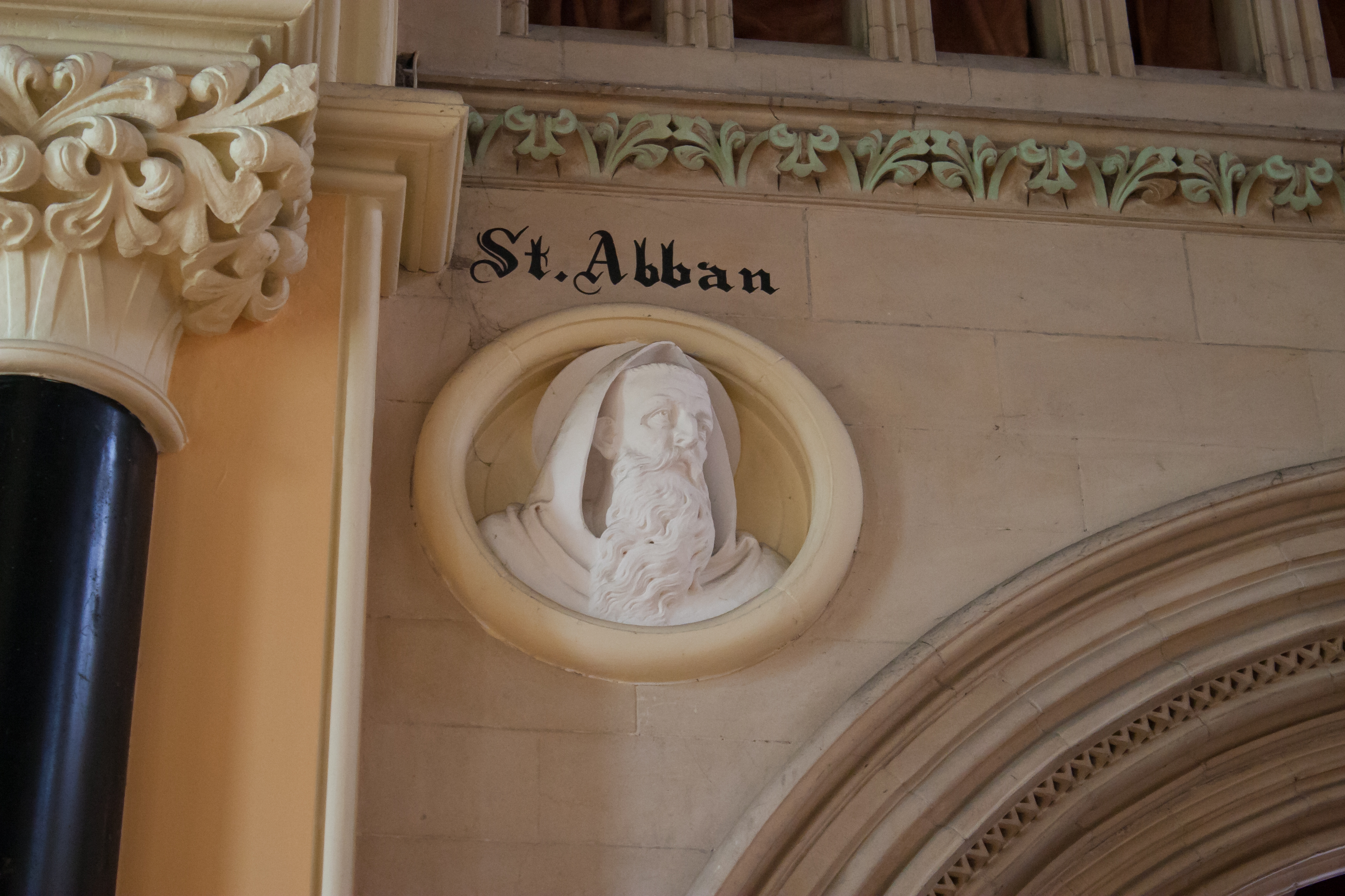 Relief of St. Abban at the west end of the nave above one of the piers separating the nave from the entrance hall.